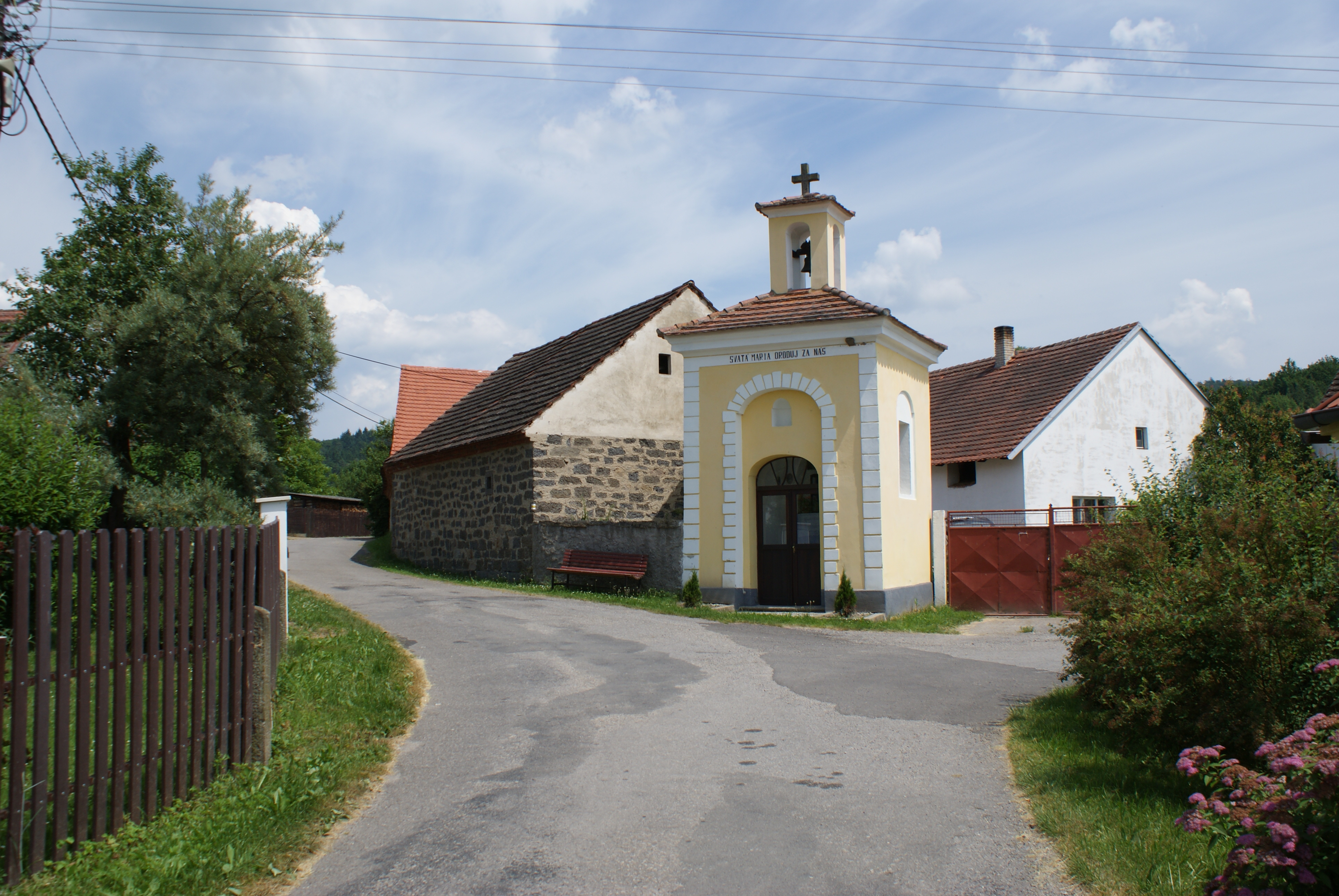 Kukle (Tálín), a village in Písek district, Czech Republic, a chapel.